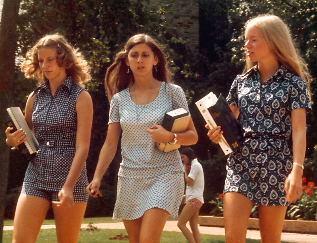 Freshman college girls between classes. By standards of the time, they would have been considered very "dressed up." Memphis, Tennessee